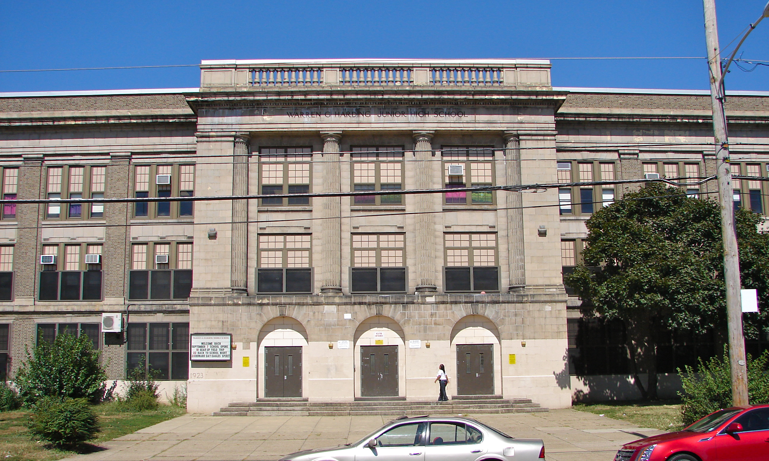 Warren G. Harding Junior High School in Philadelphia on the NRHP since November 18, 1988. At 2000 Wakeling Street in the NE Philly neighborhood of Frankford. Built 1923. Horrible name for a school.